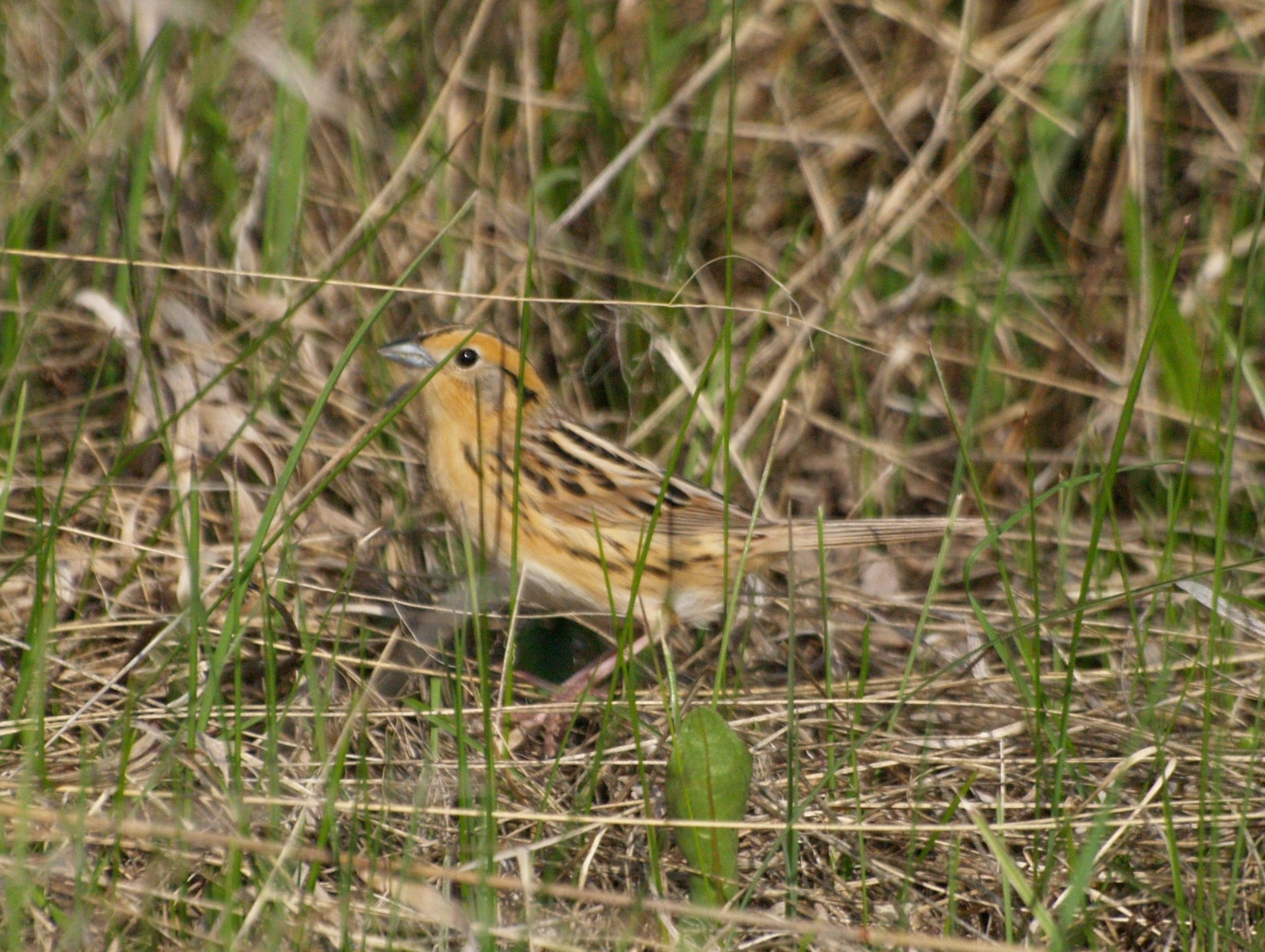 Taken near Beaudry Provincial Park, just west of Winnipeg, Manitoba.